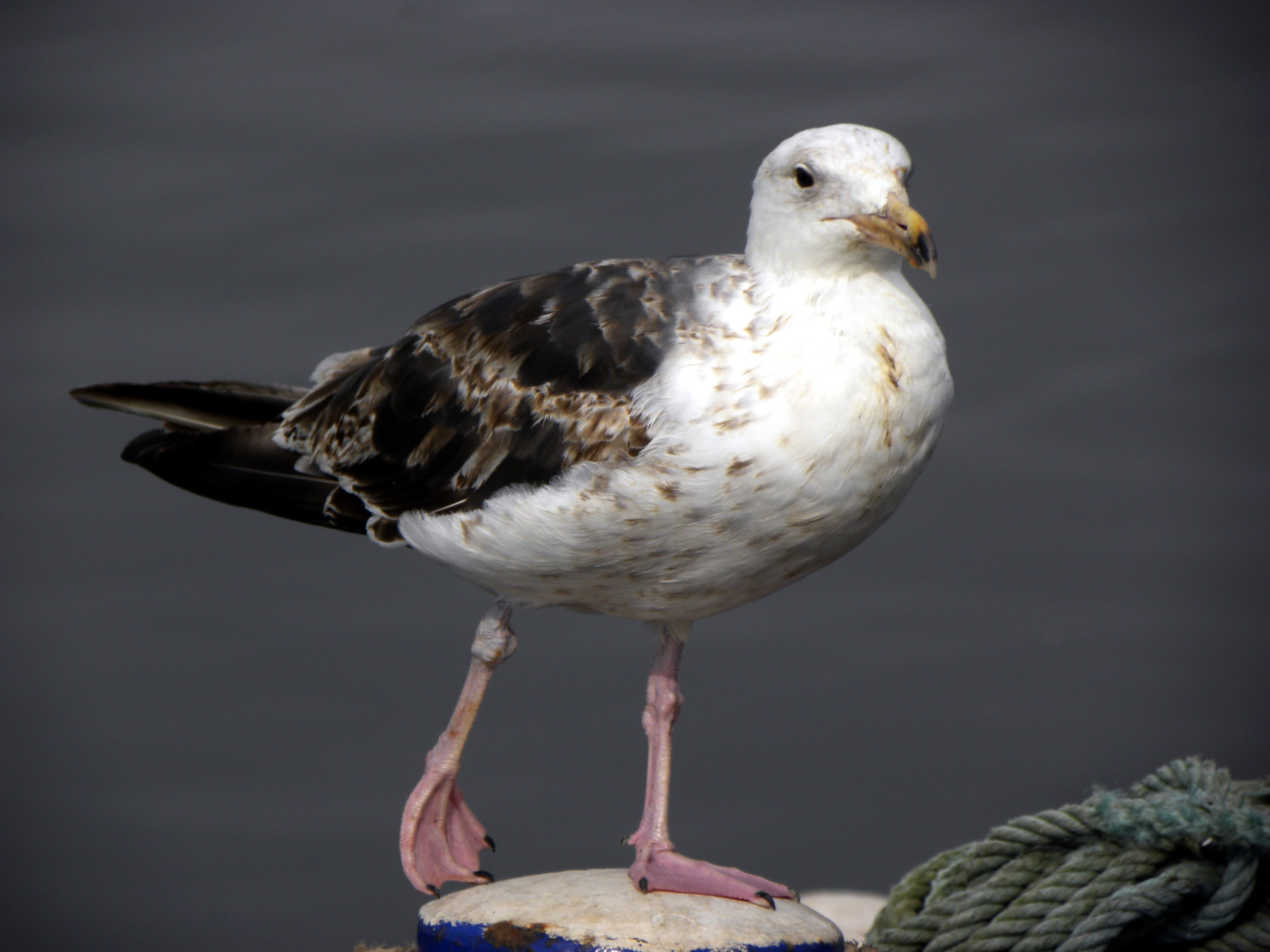 Great Black-backed Gull (Larus marinus) 15 June in Velsen, North Holland, NL.